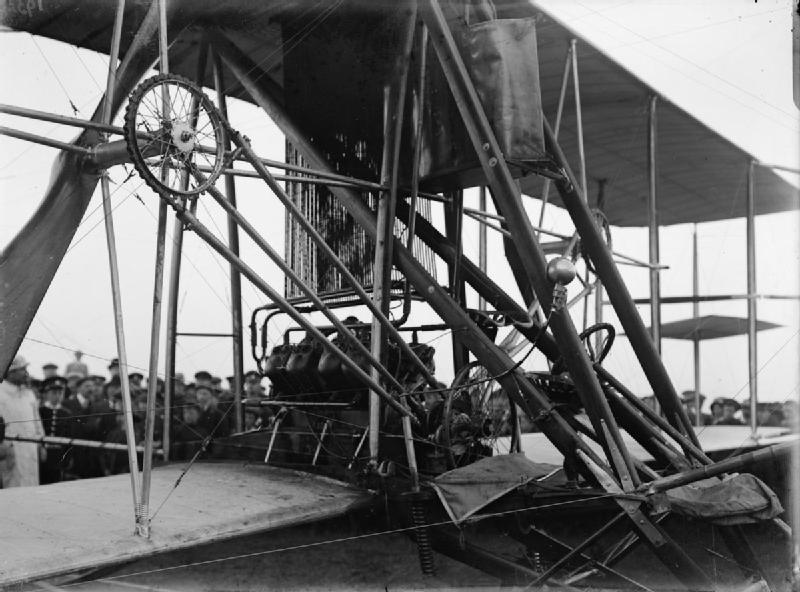 Aviation in Britain Before the First World War A good close up of the ENV engine mounted on the Cody aircraft mark IC (Cathedral - so named because of its size and the size of the hangar it required and the katahedral (lower at the wing tips) arrangement of the wings) . Note the chain drive for the propellers. The most important change made with this mark was moving the pilots seat to in front of the engine. The aircraft was altered several more times, here balancing planes have been added between the wings on the rear outer struts. Particularly with his earlier aircraft Cody made constant adjustments to the arrangement of the flying surfaces, often after crashes, in order to obtain better performance and handling. These changes mean that identifying specific sub-marks of Cody aircraft can at times be very difficult, it should also be remembered that because of this constant evolution of his aircraft Cody would probably not have classified them in such a detailed manner. It was in this aircraft that Cody made the first passenger carrying flight in Britain (Colonel Capper on the 14th August 1909) and several record breaking flights including one cross-country of around forty miles and lasting an hour and three minutes, passing over Aldershot, Camberley, Fleet, Farnham and Farnborough on the 8th September 1909. This was the furthest cross-country flight that had ever been made, anywhere in the world and the longest flight in time and distance in the British Empire. Only six other pilots and four types of machine had flown over forty miles anywhere in the world and all of these were aerodrome circuits not cross-country flights.